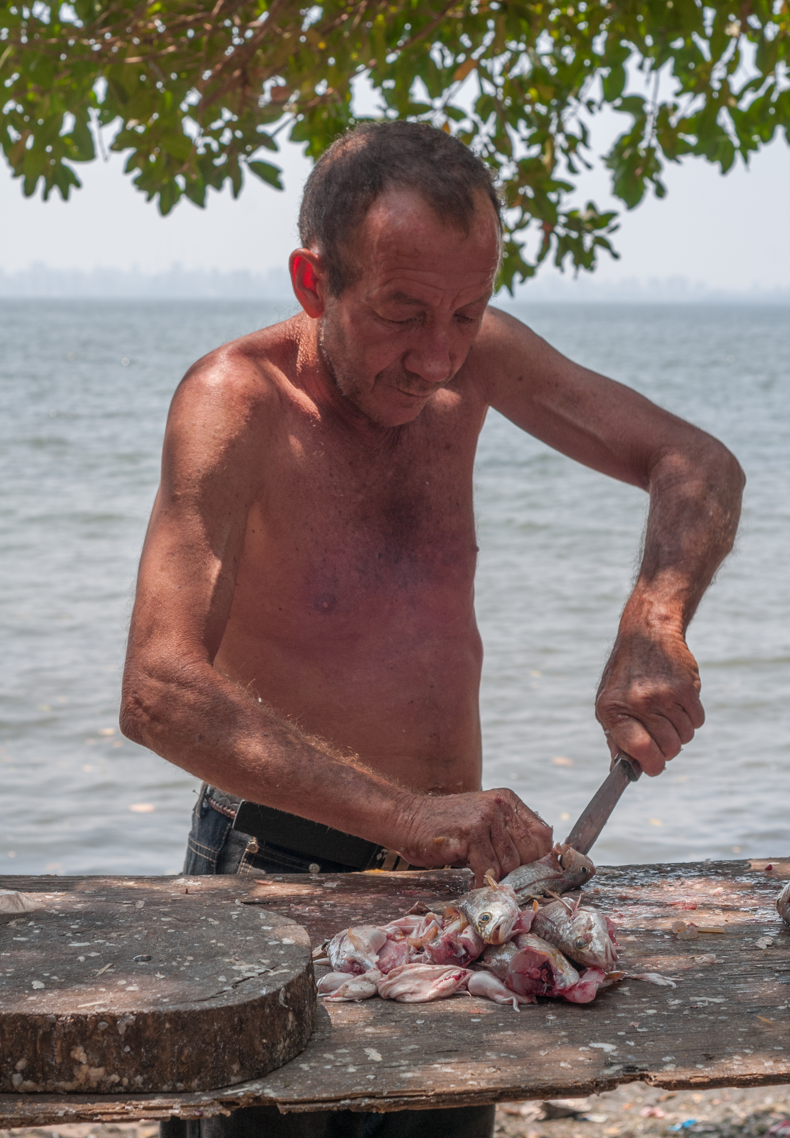 Fisherman gutting the fish